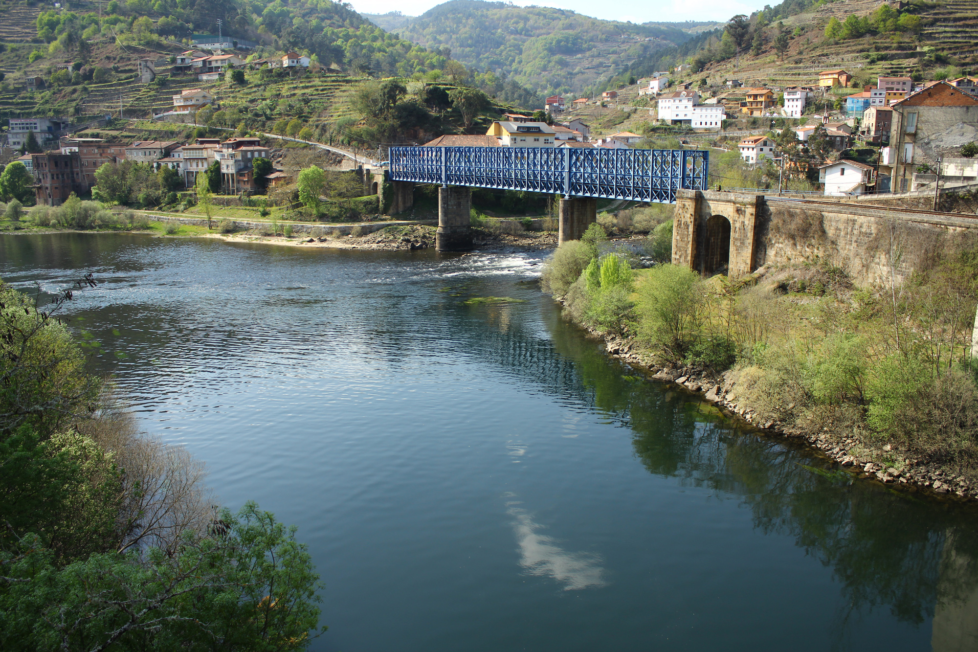 Confluence between the Minho river and the Sil river, in Los Peares